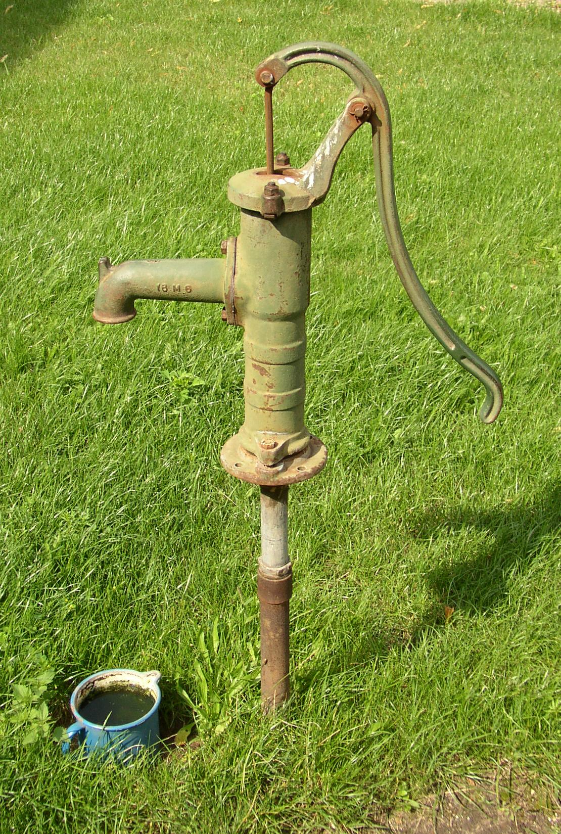 Manual Pump in Wulkow-Großwulkow in Saxony-Anhalt, Germany